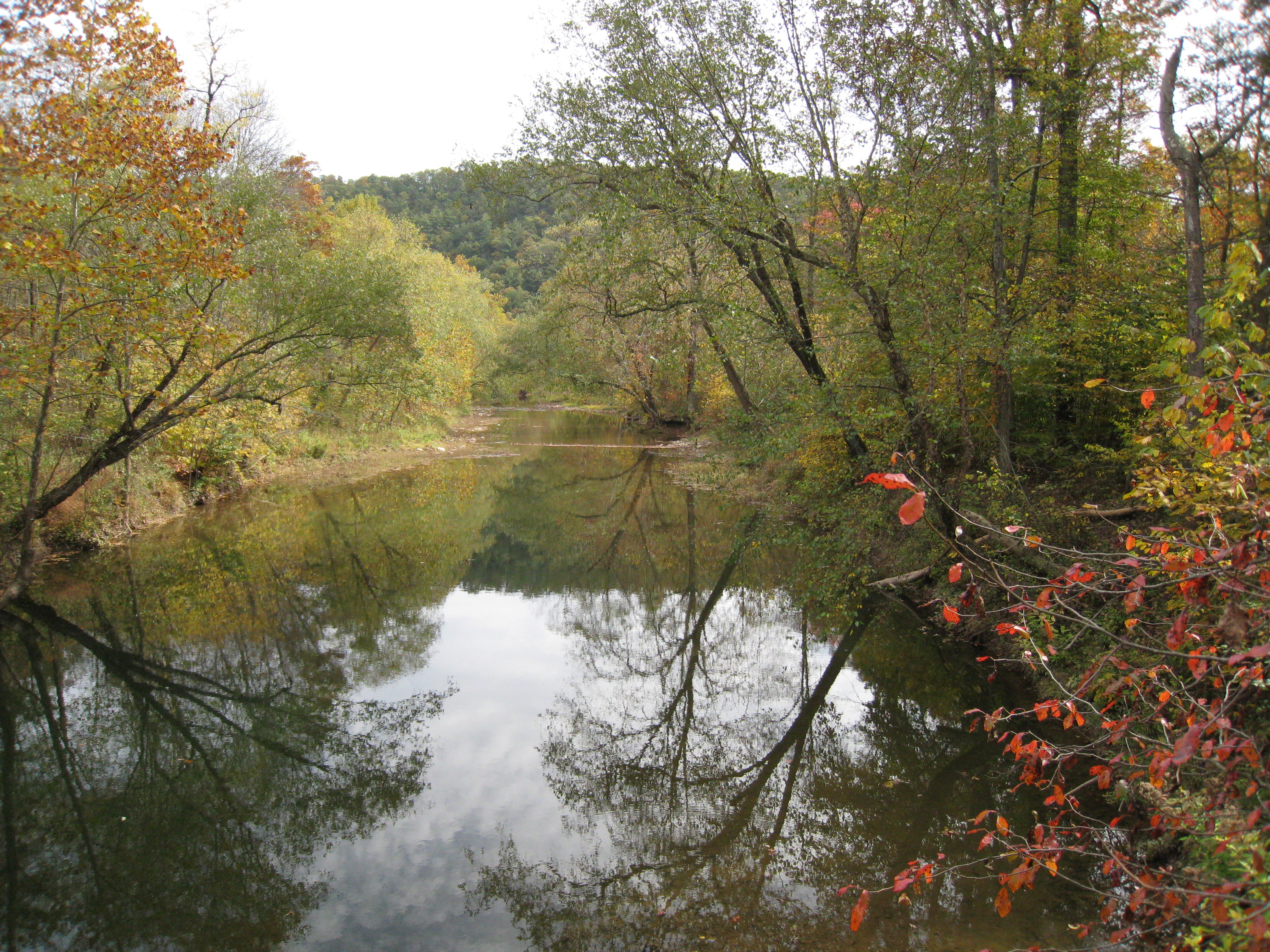 Little Cacapon River viewed from Okonoko-Little Cacapon Road (County Route 2/7) near Little Cacapon, West Virginia, United States.